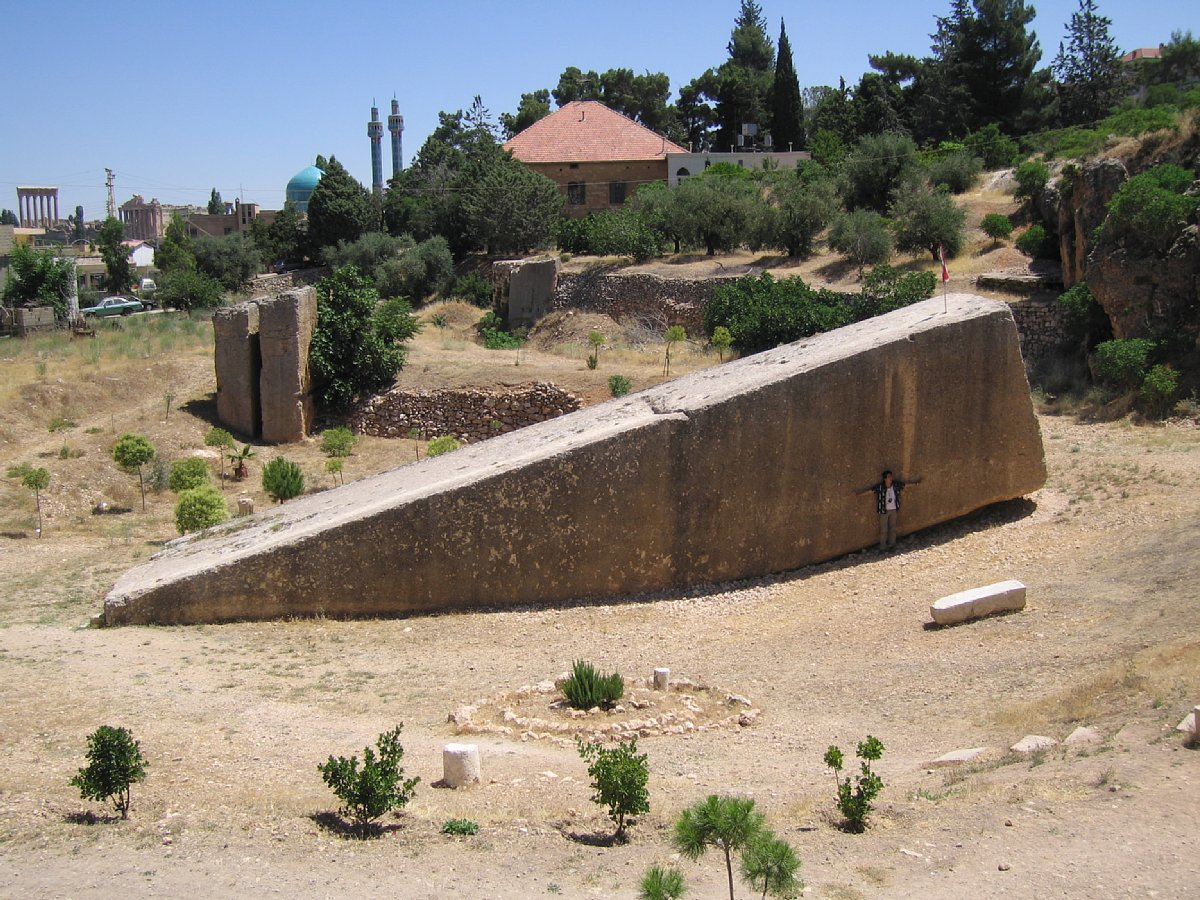 One of those enormous mysterious stones which can be found close to the roman temple. These stones are the very largest monoliths ever quarried by men.